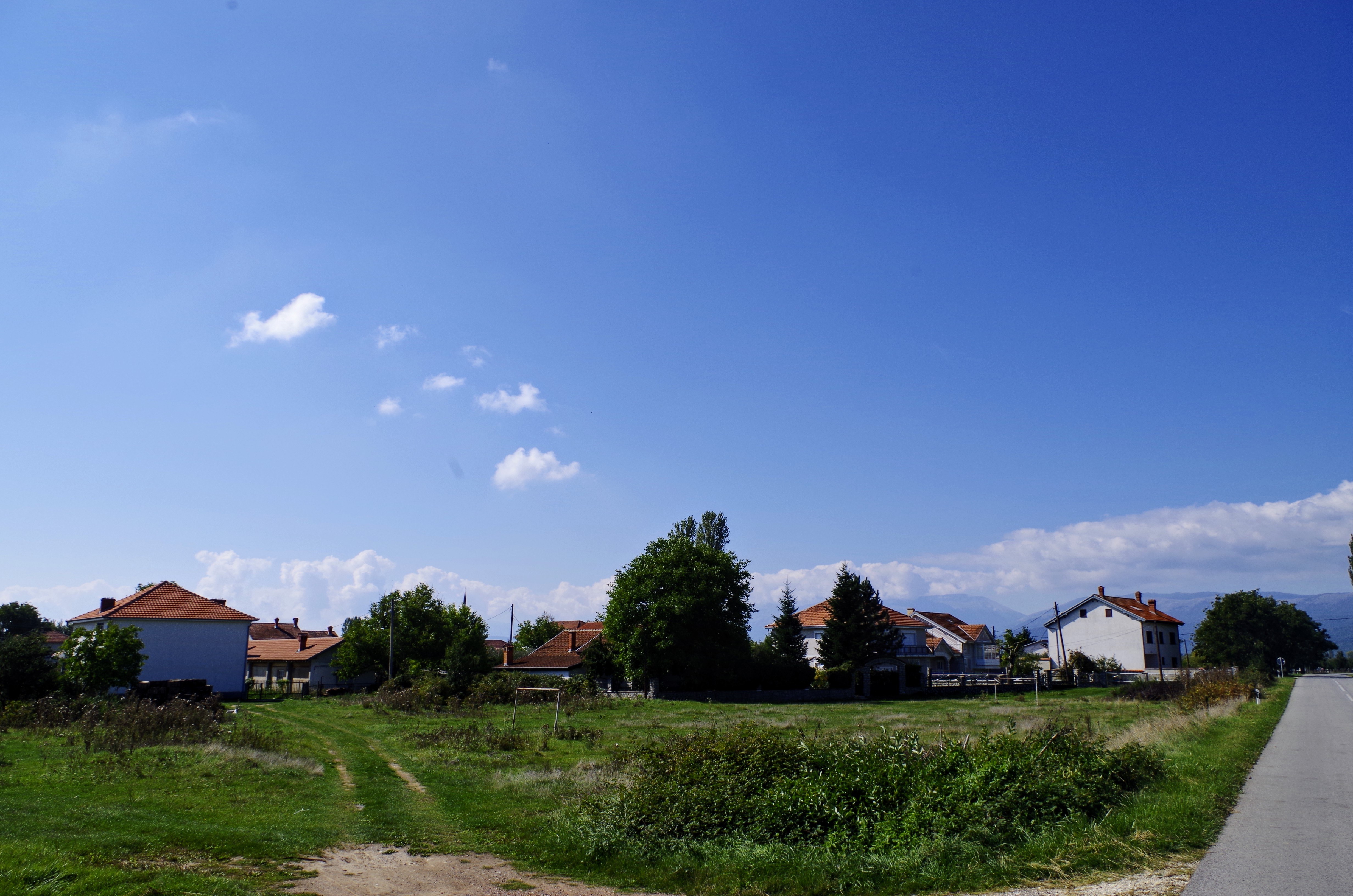 View of the village Gorna Bela Crkva